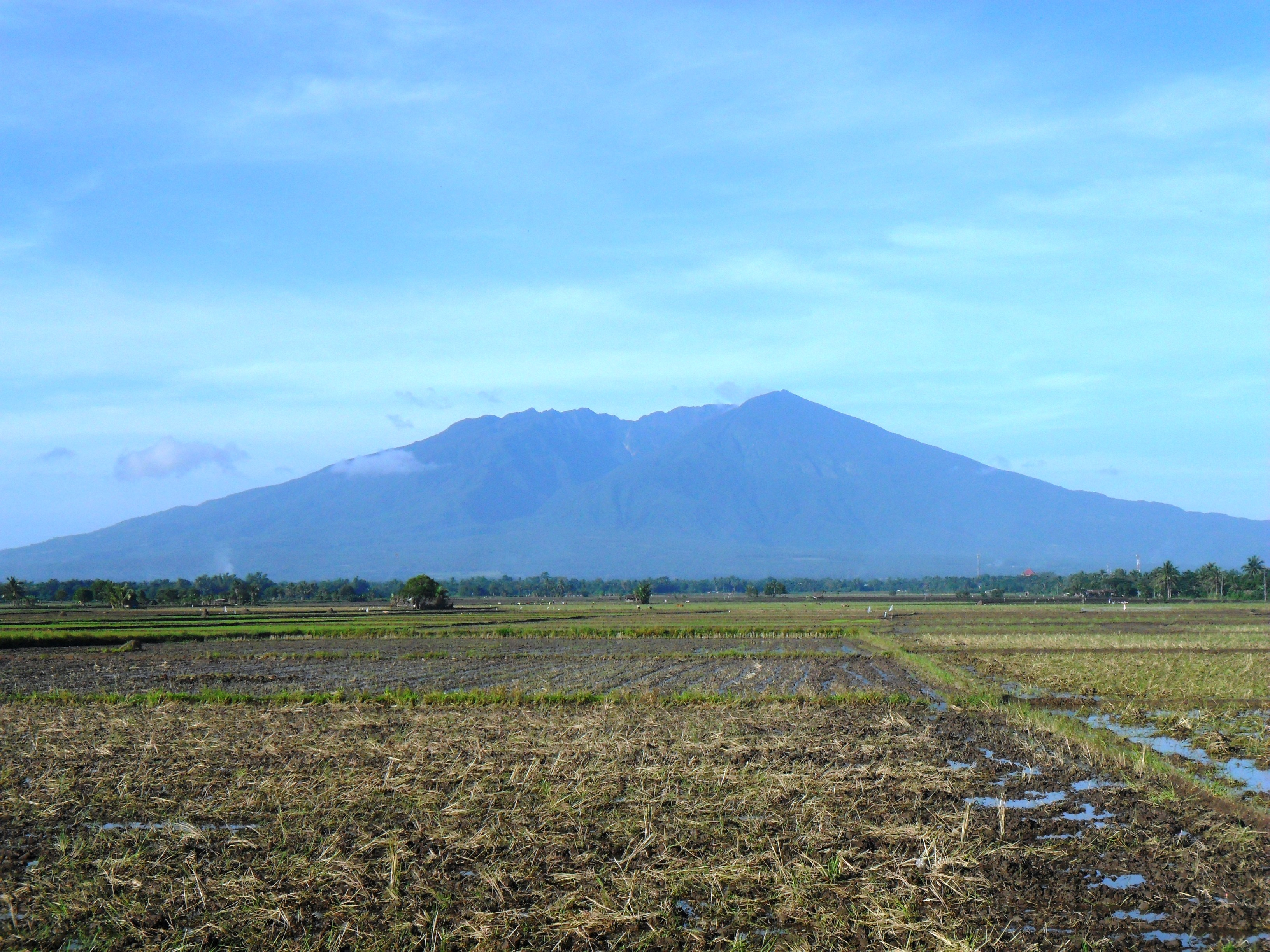 This is the view of Mt. Isarog at the ricefields of Kinalansan, San Jose, Camarines Sur, Philippines.